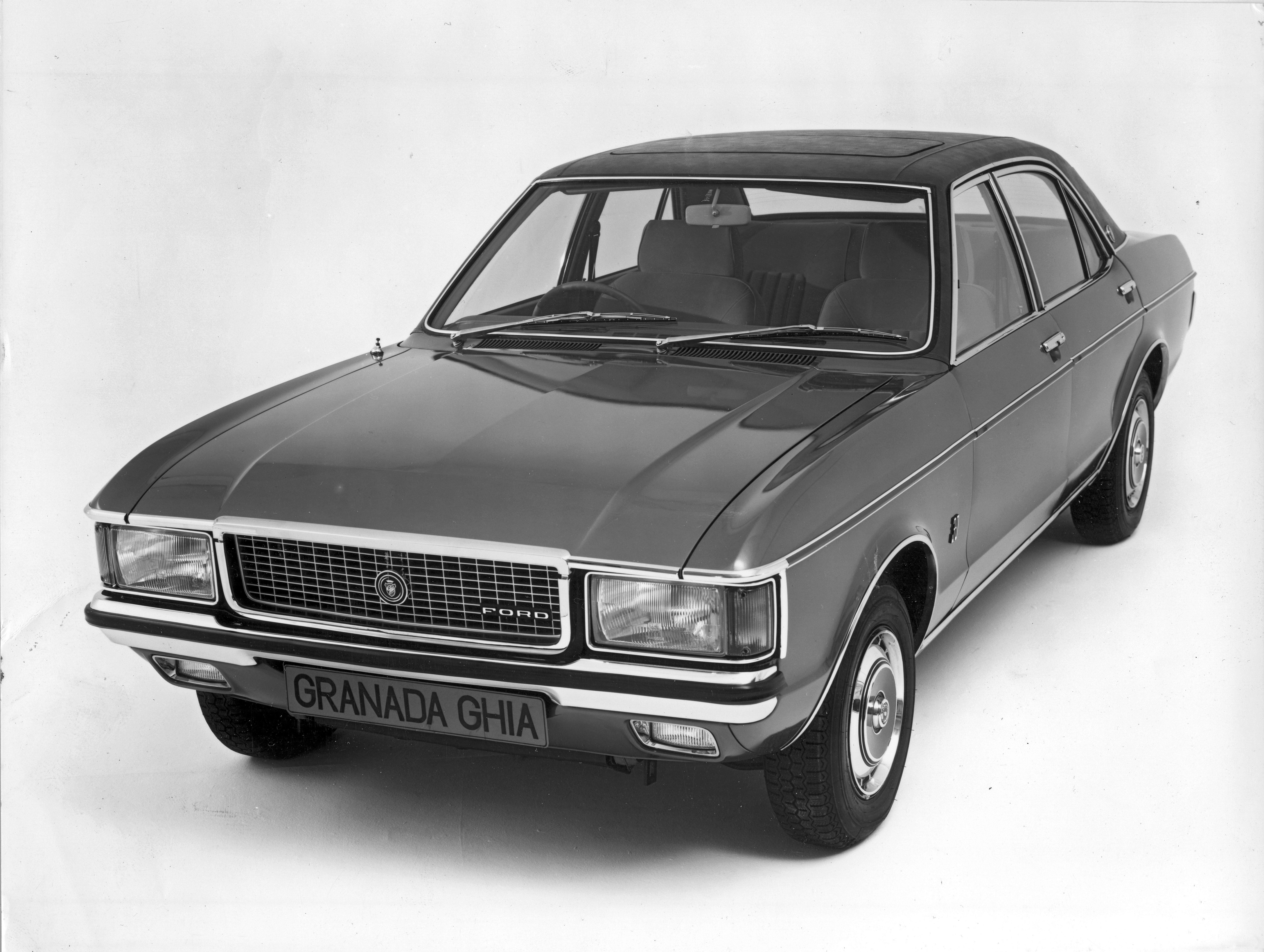 1974 Ford Granada 3.0 Ghia